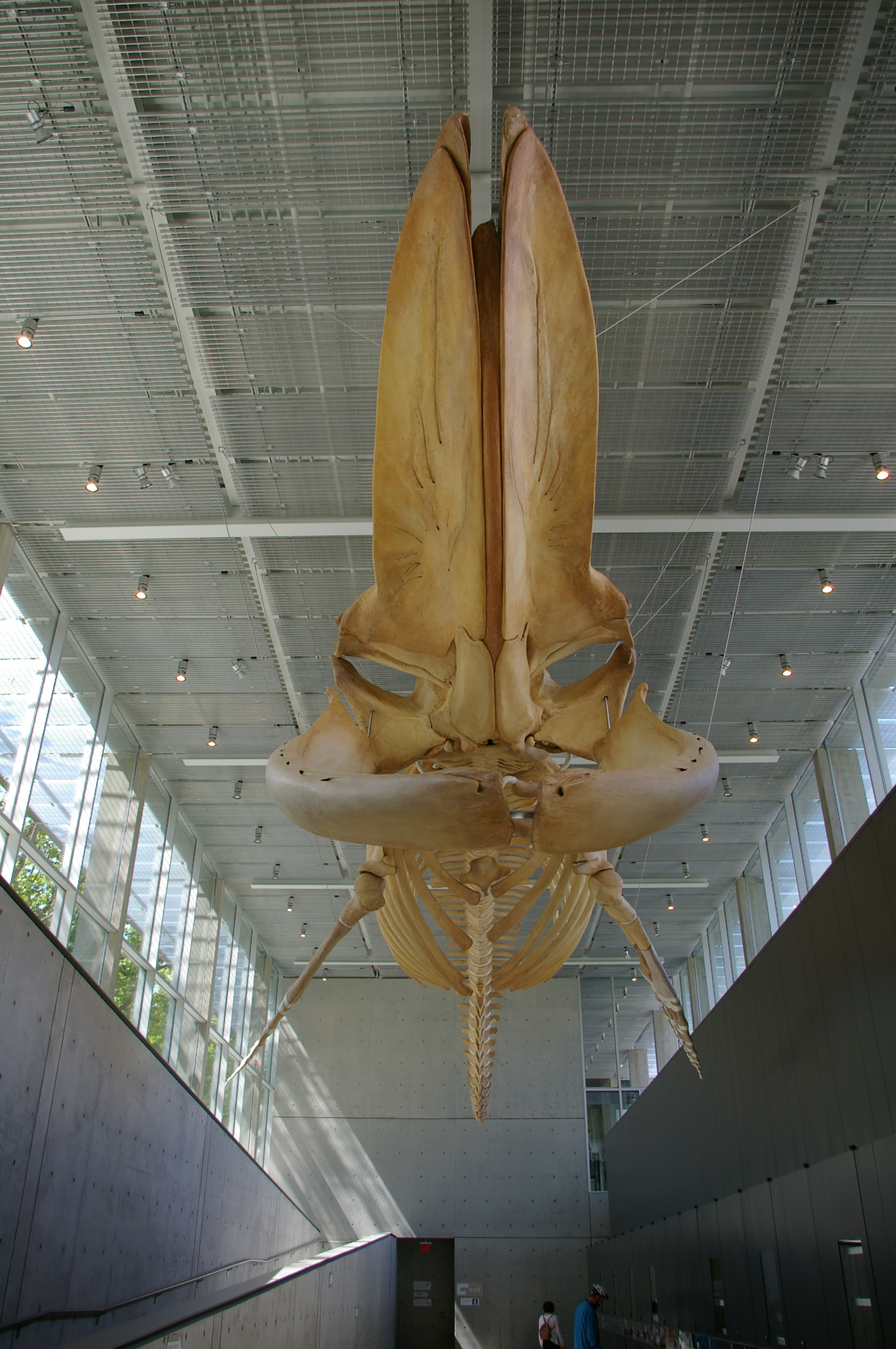 "On the remote northwestern coast of PEI in 1987, a 26 m long mature female blue whale died and washed ashore near the town of Tignish. In 2007, the PEI government granted UBC permission to retrieve the whale, and bring it to BC to be displayed in the new Beaty Biodiversity Museum."